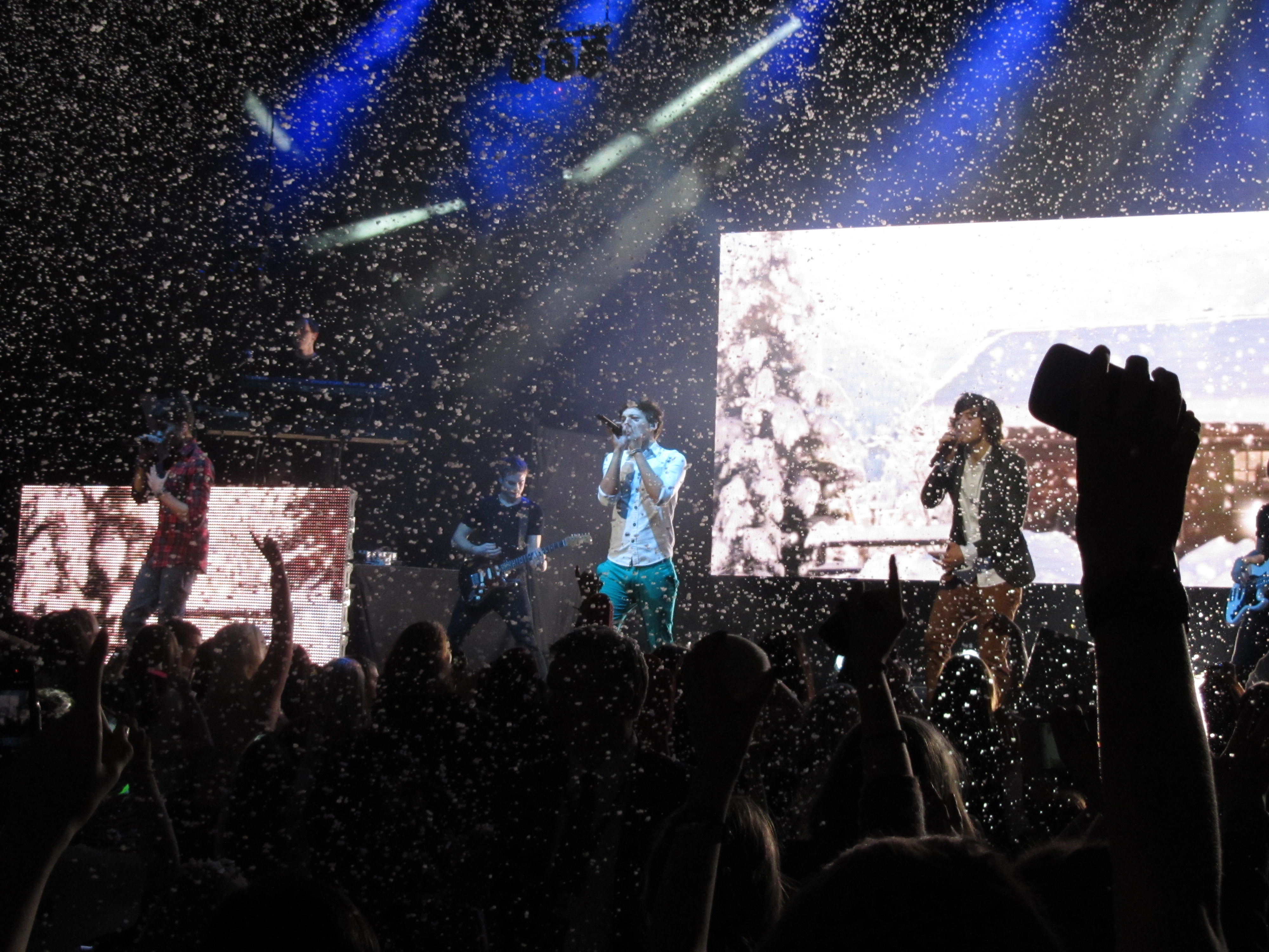 One Direction performing "One Thing", Clyde Auditorium, Glasgow, Saturday 14 January 2012